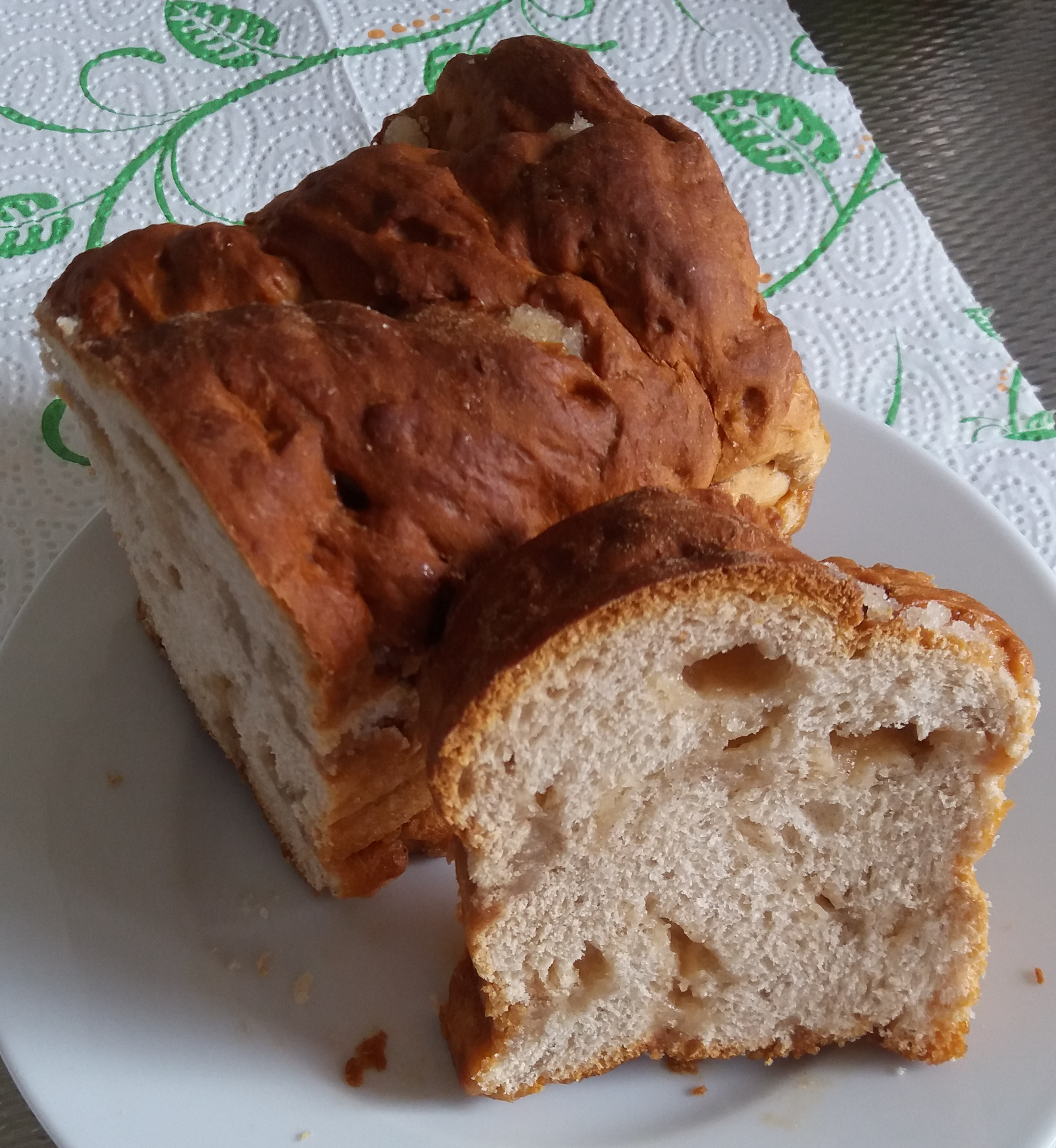 A slice of the traditional Frisian Sugarbread.